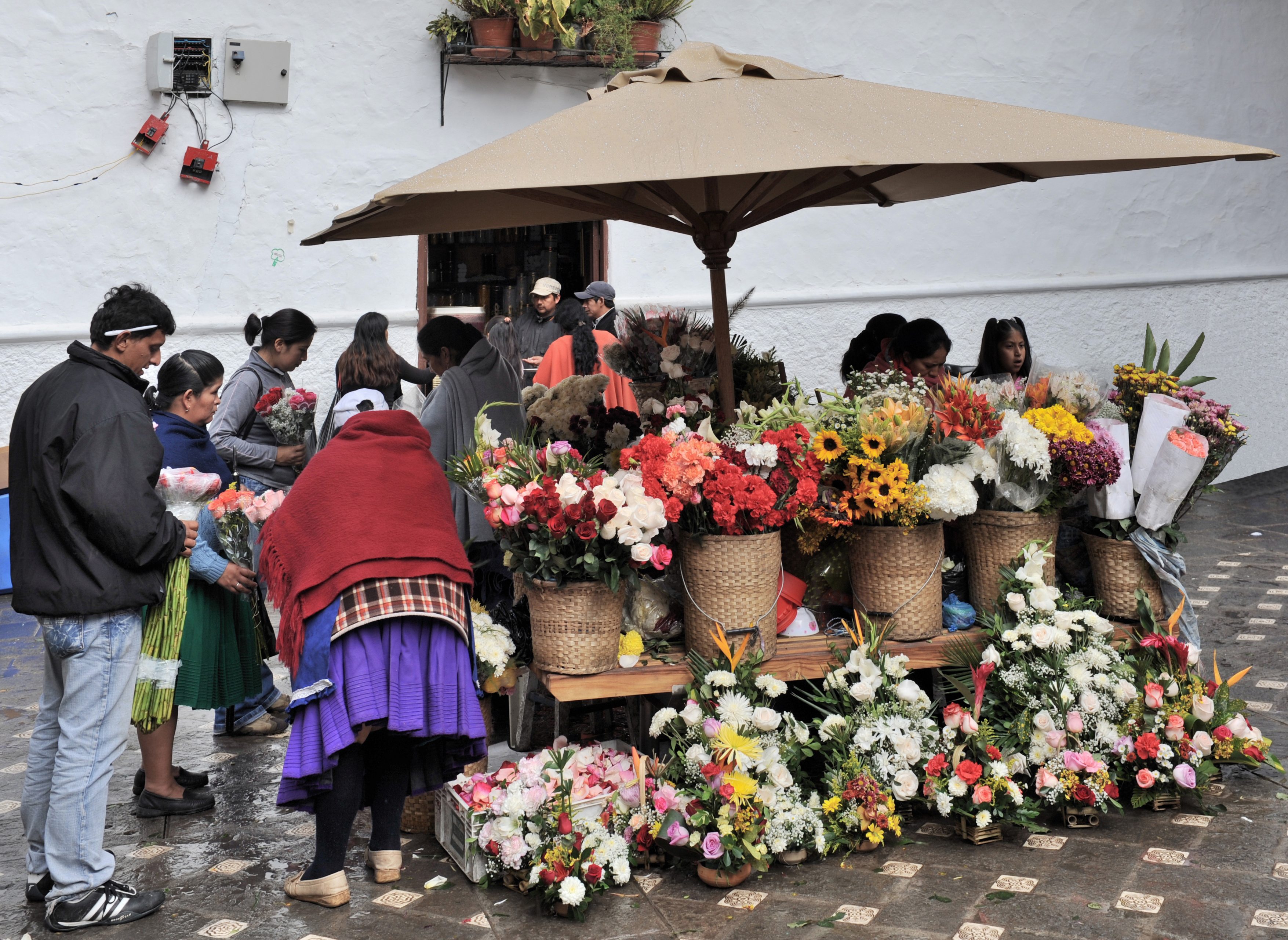 Cuenca, Ecuador: sale of flowers on Plaza de las Flores, Square of flowers (also Plazoleta del Carmen, small square of the Carmel), in the historical centre of the city.